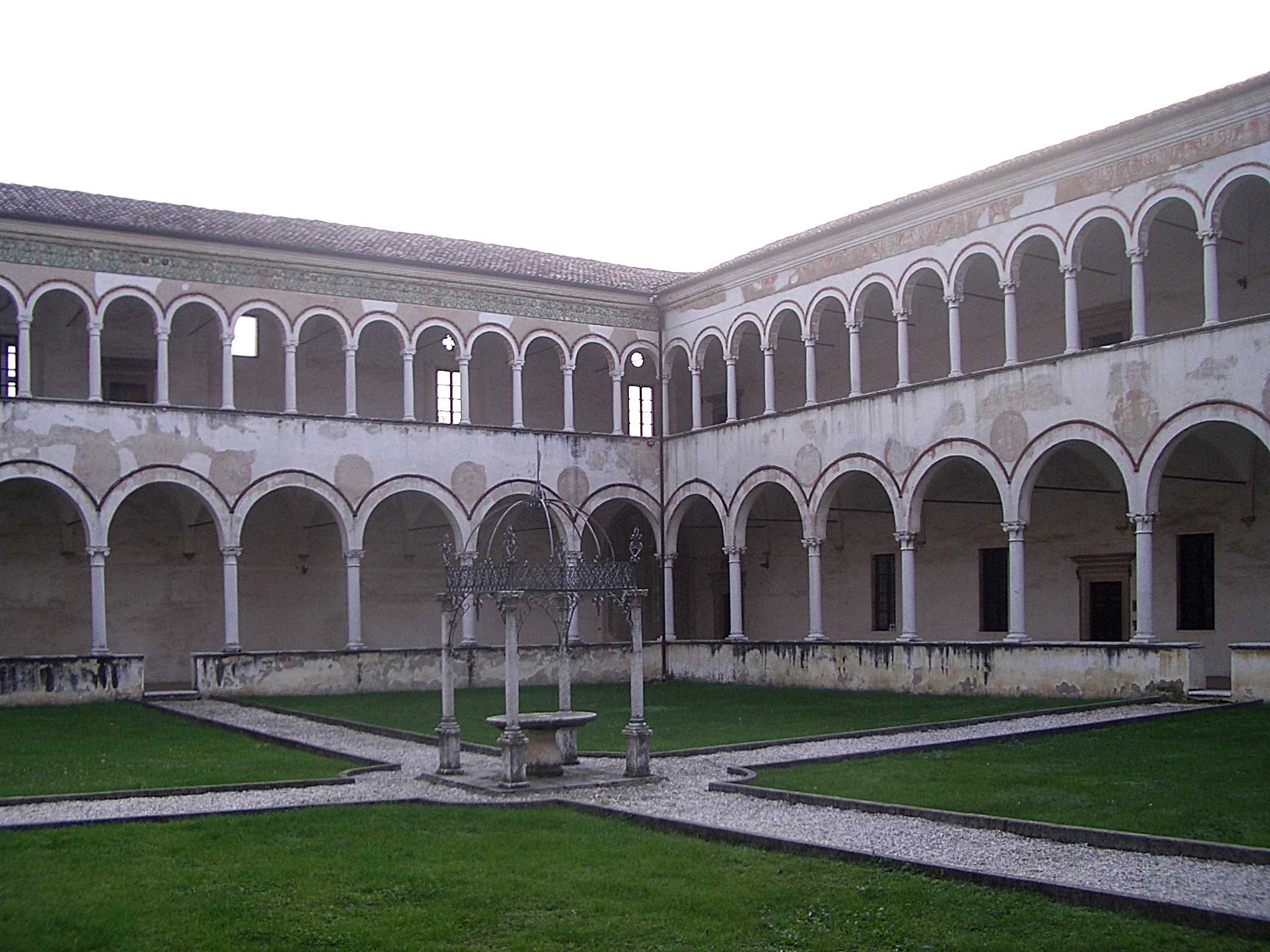 Rodengo Saiano Abbey, One of the three cloisters of the abbey, called "chiostro grande"